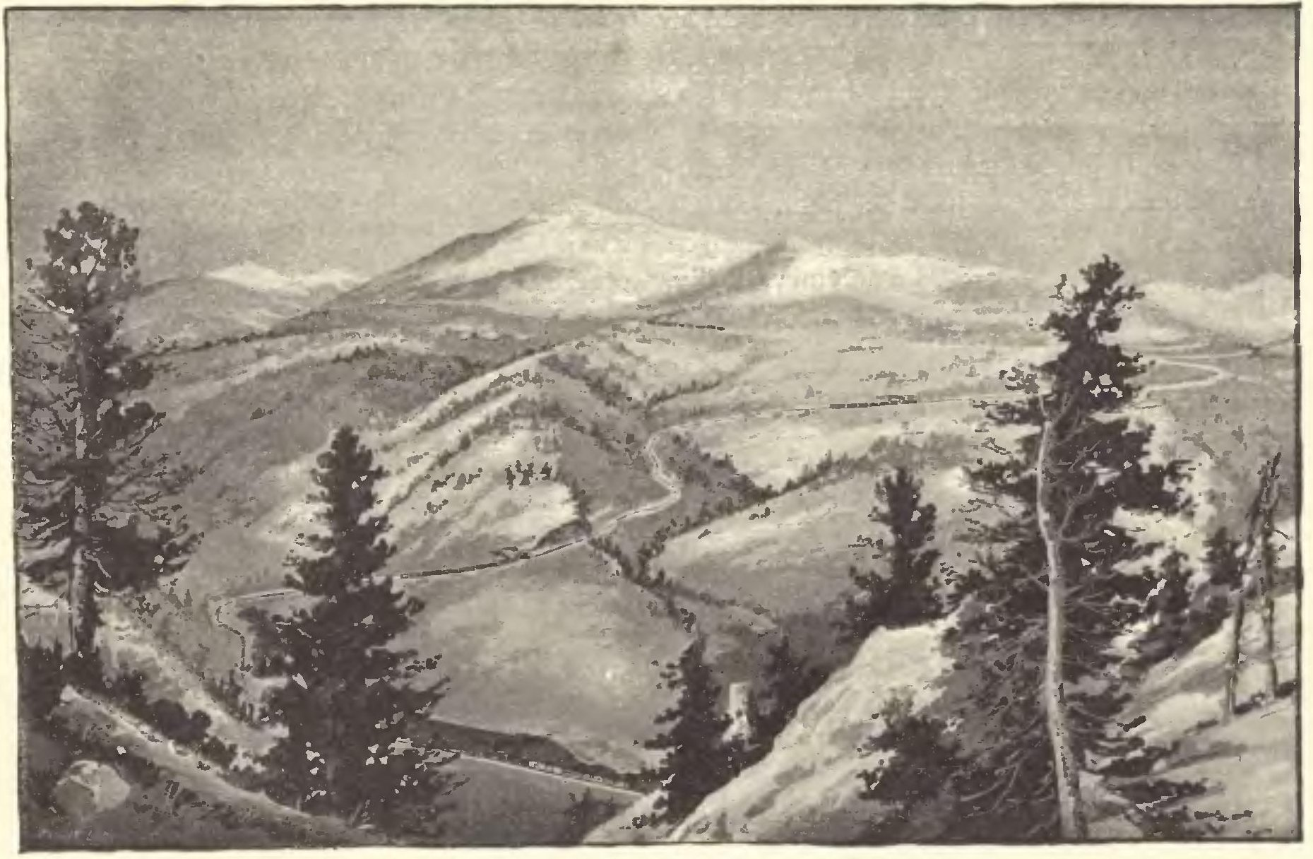 Western slopes of Marshall Pass as seen from a train of Denver and Rio Grande Western Railroad. Published as illustration to a travelogue "Vlakem do výše věčného sněhu" (By Train to the Heights of Eternal Snow)